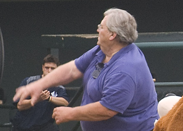 Denny McLain Throws Out the First Pitch July 11, 2012 at 'The Joe' (Joseph P. Riley Jr. Ballpark), Charleston, SC